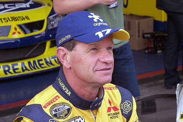 Ingo Hoffmann Interlagos Junho 2007